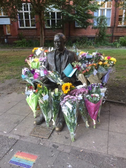 Alan Turing's statue surrounded by flowers on his birthday 2018.